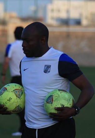 narcisse